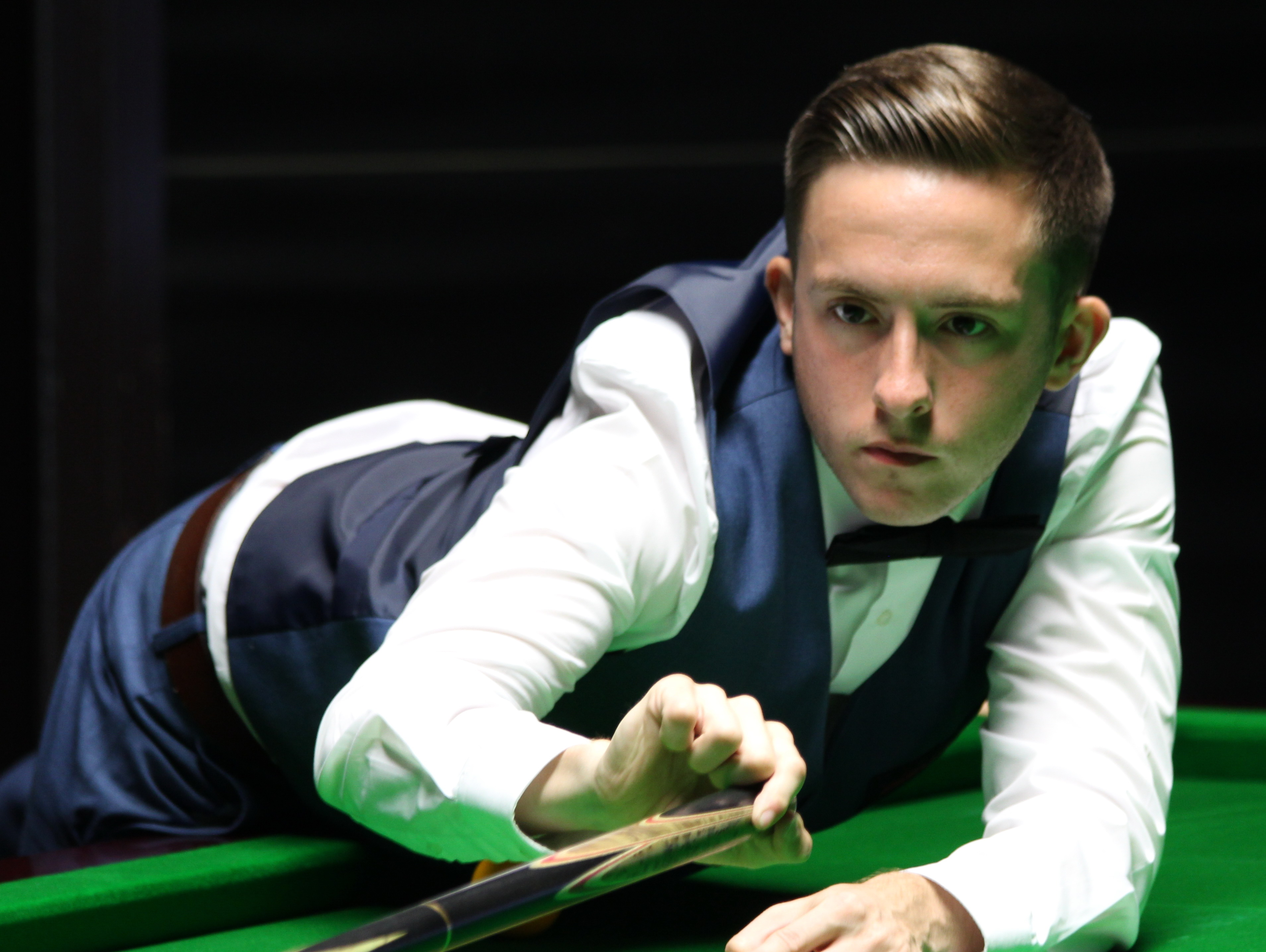 Sean O’Sullivan beim Paul Hunter Classic 2016